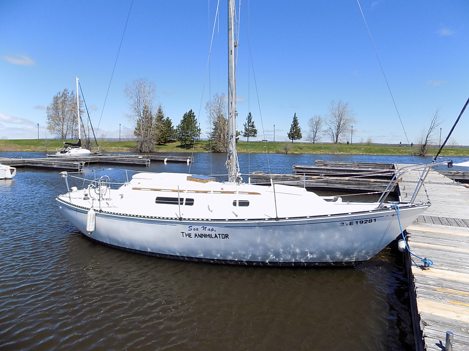 A C&C 27 Mark II sailboat named Sea Nap The Annihilator